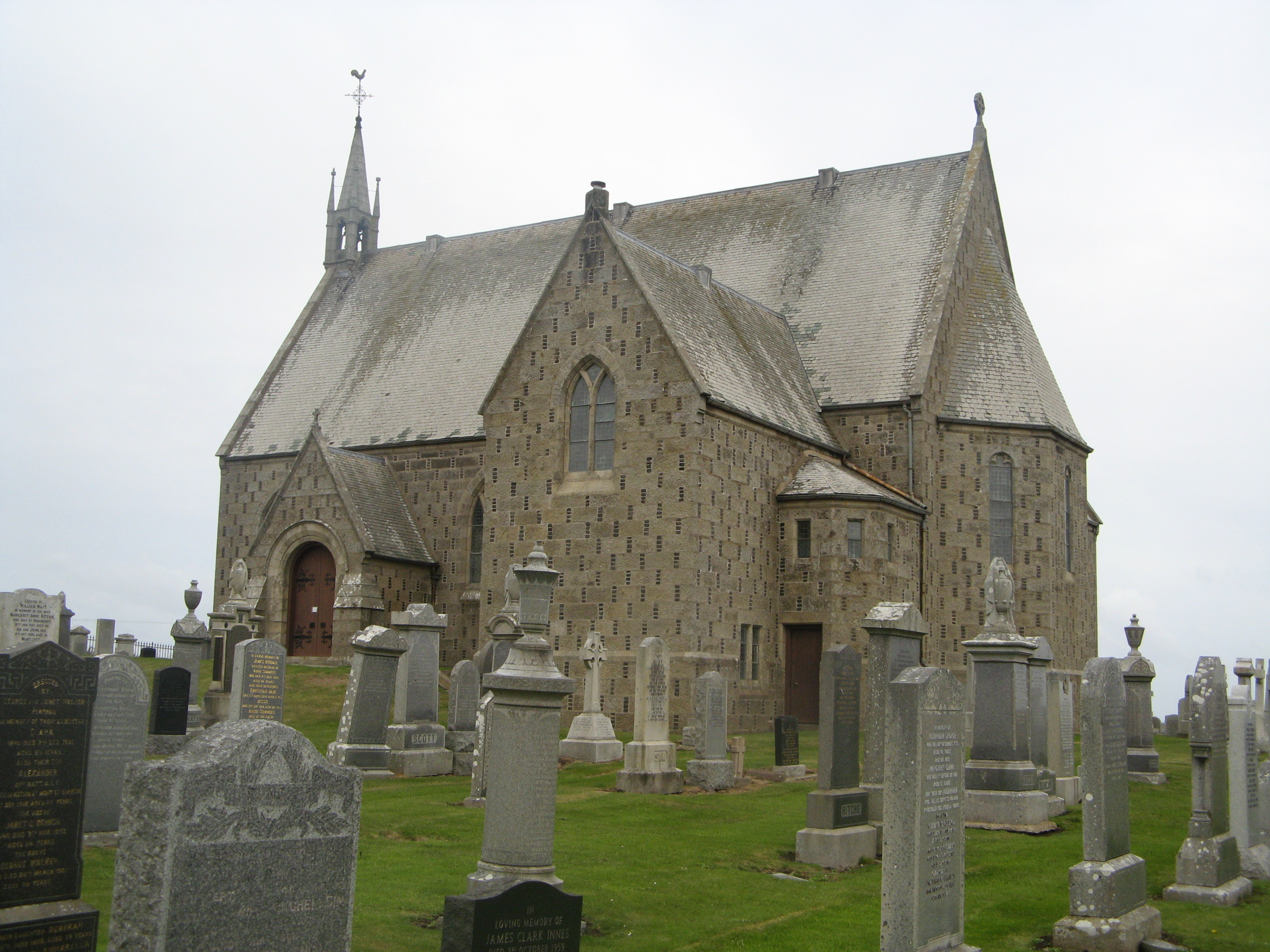 Hill Kirk (Pitsligo Parish Church of Scotland)